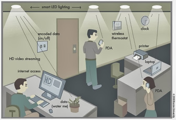 li_fi vrs